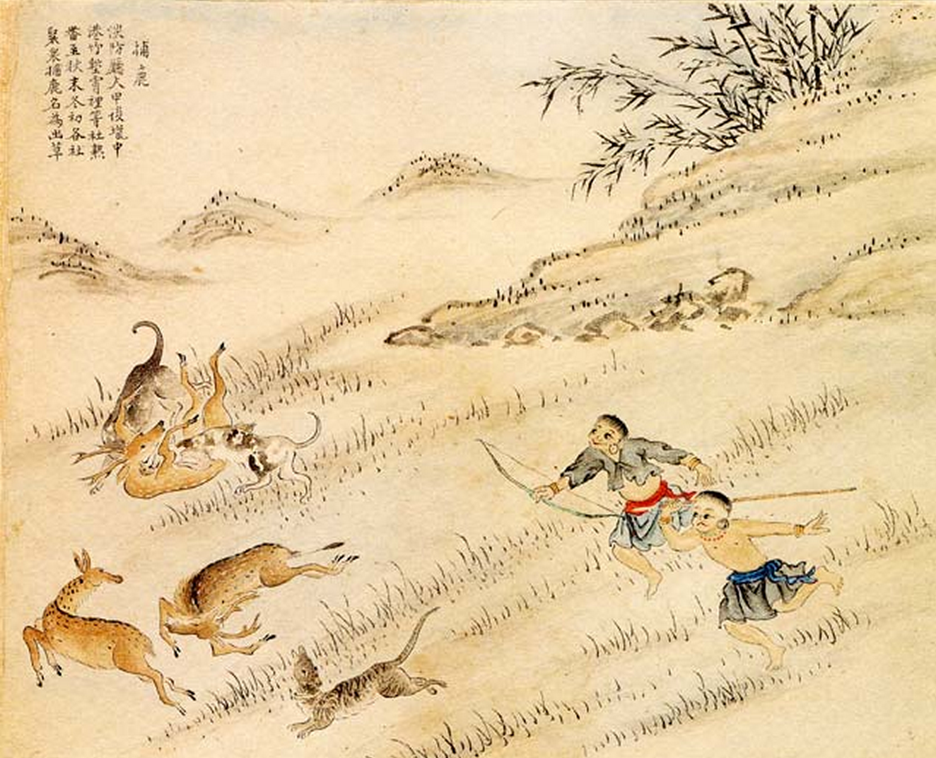 Hunting Deer: Before this piece was drawn, the natives hunted for subsistence, calling the act "stepping onto the grass". The act became a custom instead: those above the age of 10 trained with the bow to the point where they shoot with unerring accuracy up to thirty, forty paces. When the grass grew lush in spring, the tribes harkened to the call for the hunt, bringing all tools and hunting dogs. They hunted in all directions, piercing the throats of deer for blood and roasting rabbits and fowls on spits. The innards were gathered and fermented to be a delicacy called "meat shoots" The skins and furs were traded with the Han Chinese for salt, rice, tobacco, cloths and other items.